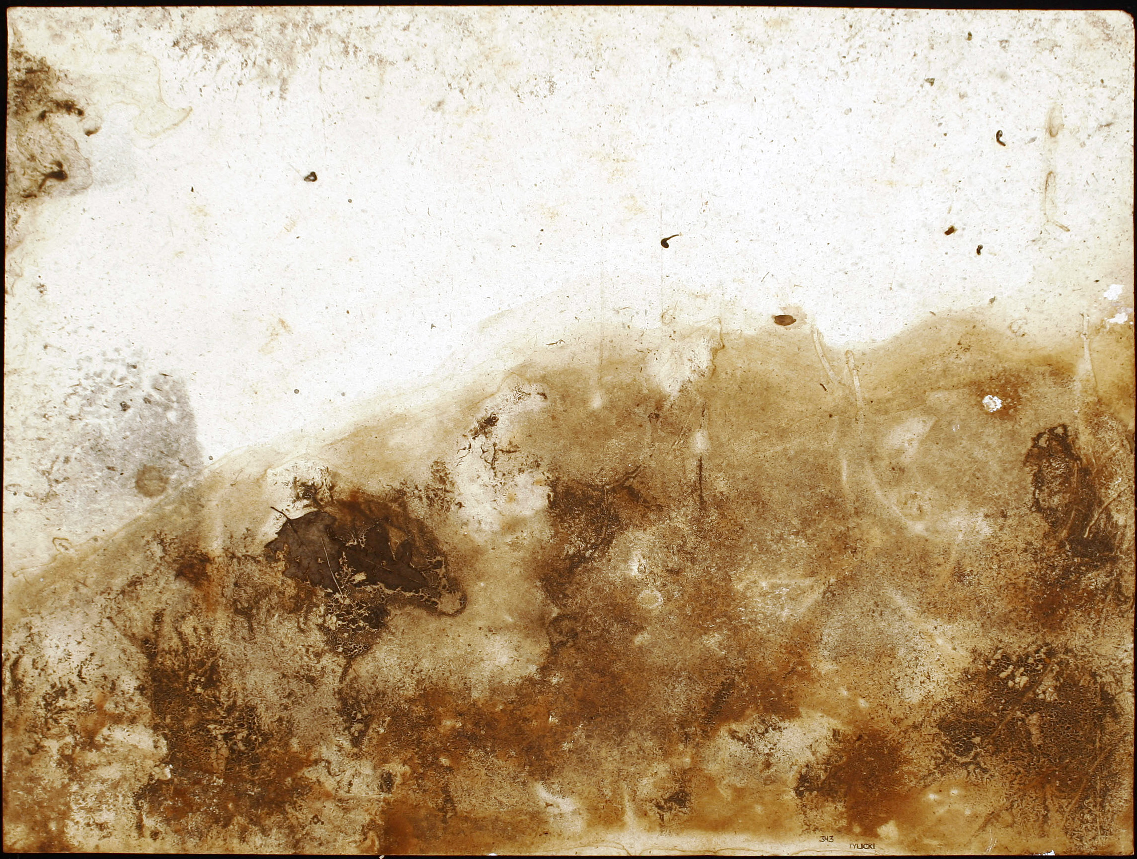 Natural Art Nr. 343. Created by Nature. 20 days on the forest meadow. Sianowska Huta (near Karuzy). Poland